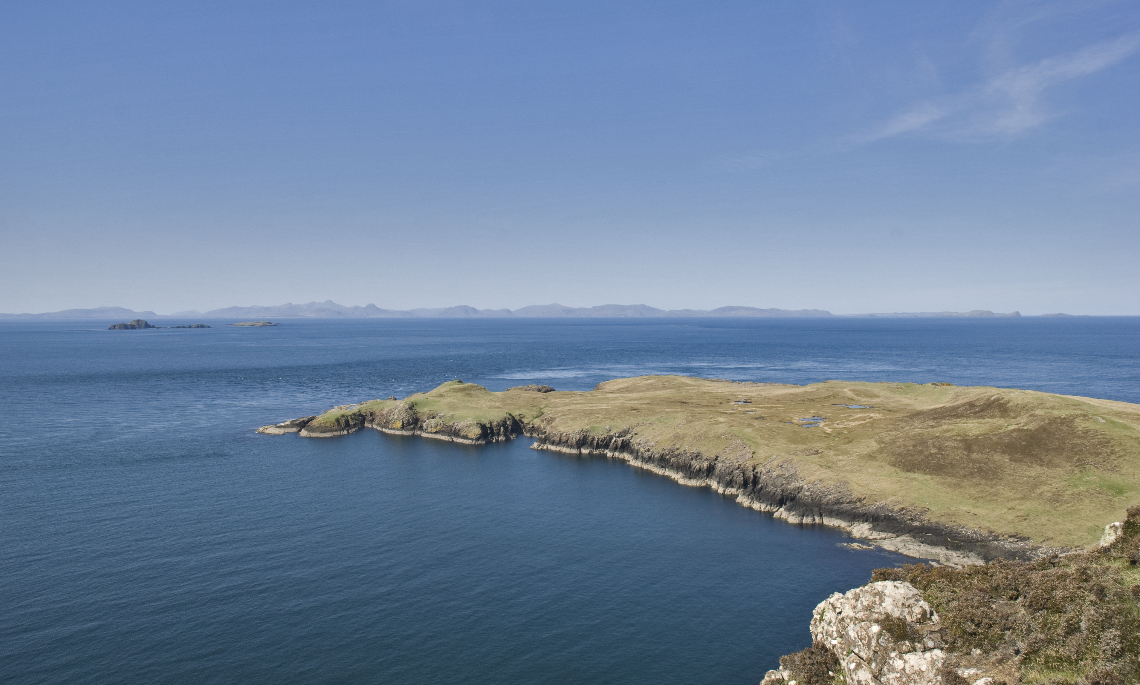 Erisco, The end of the North West of Skye, Scotland